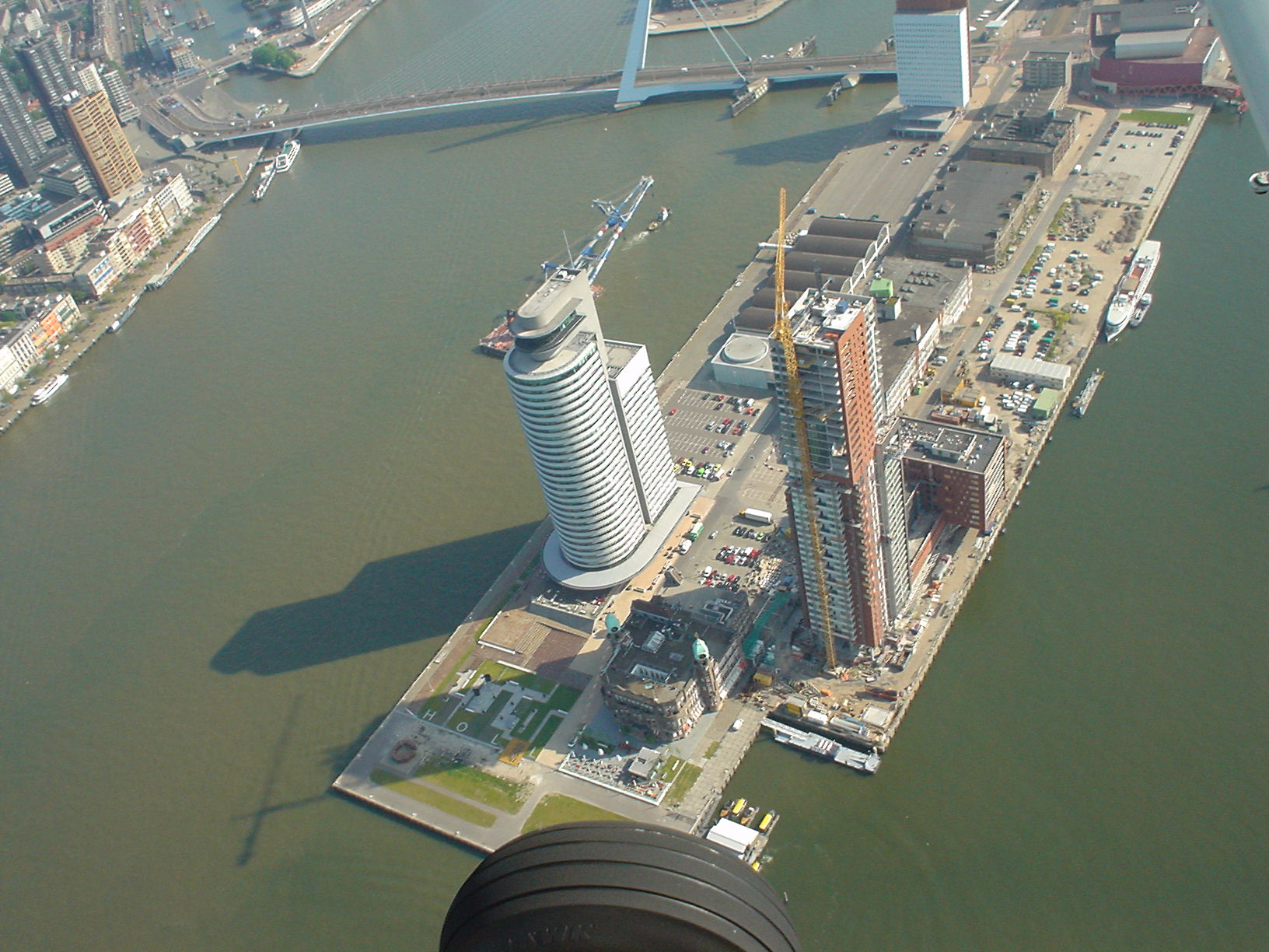 Aerial picture of the World Port Center, Rotterdam, The Netherlands.